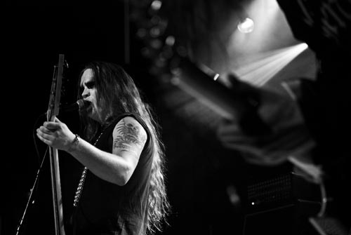 Gehenna, live at Hole In The Sky, Bergen Metal Fest 2008